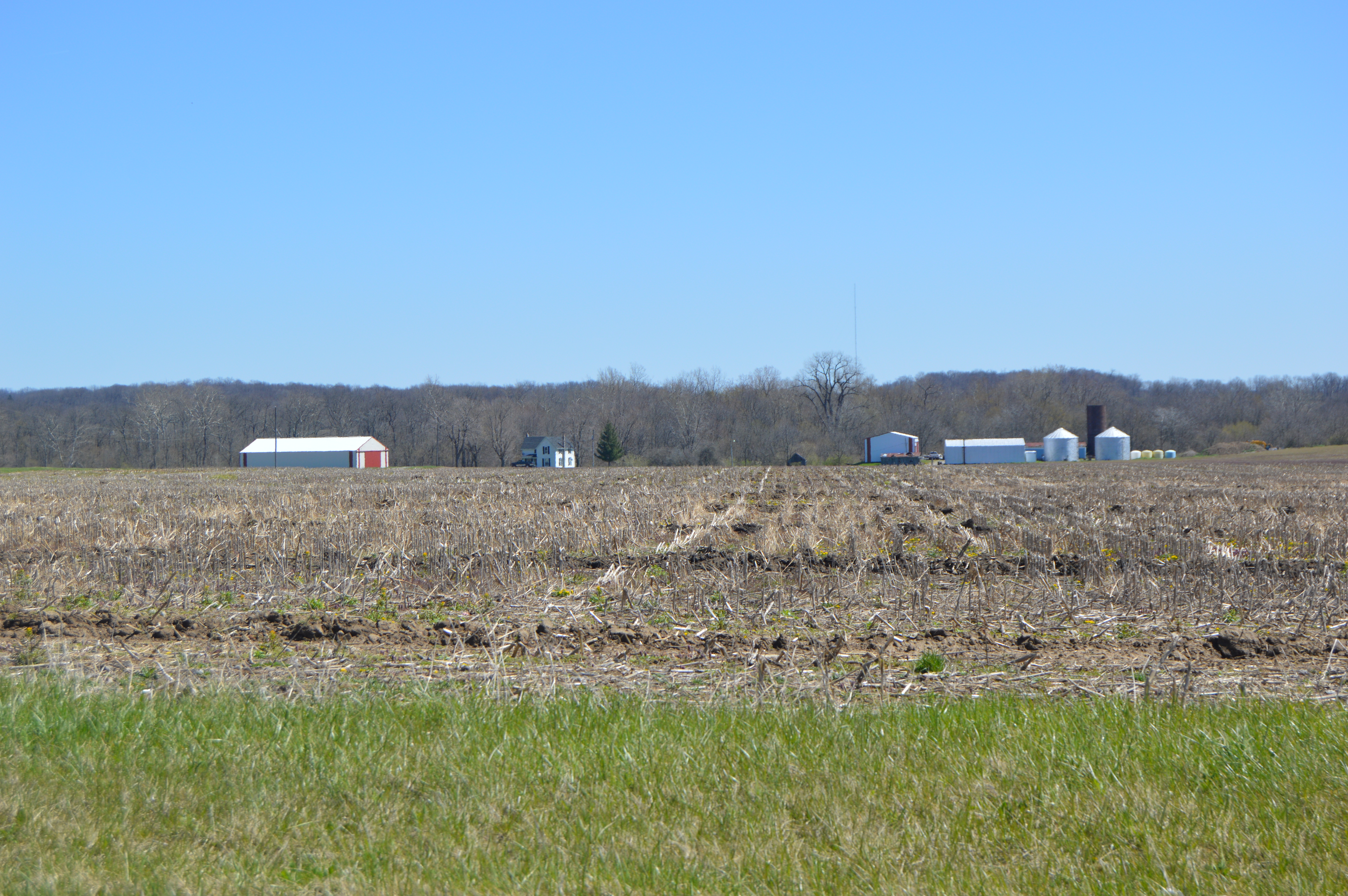 Stubble fields and a farmstead on the eastern side of State Route 41 north of Greenfield in southeastern Perry Township, Fayette County, Ohio, United States.